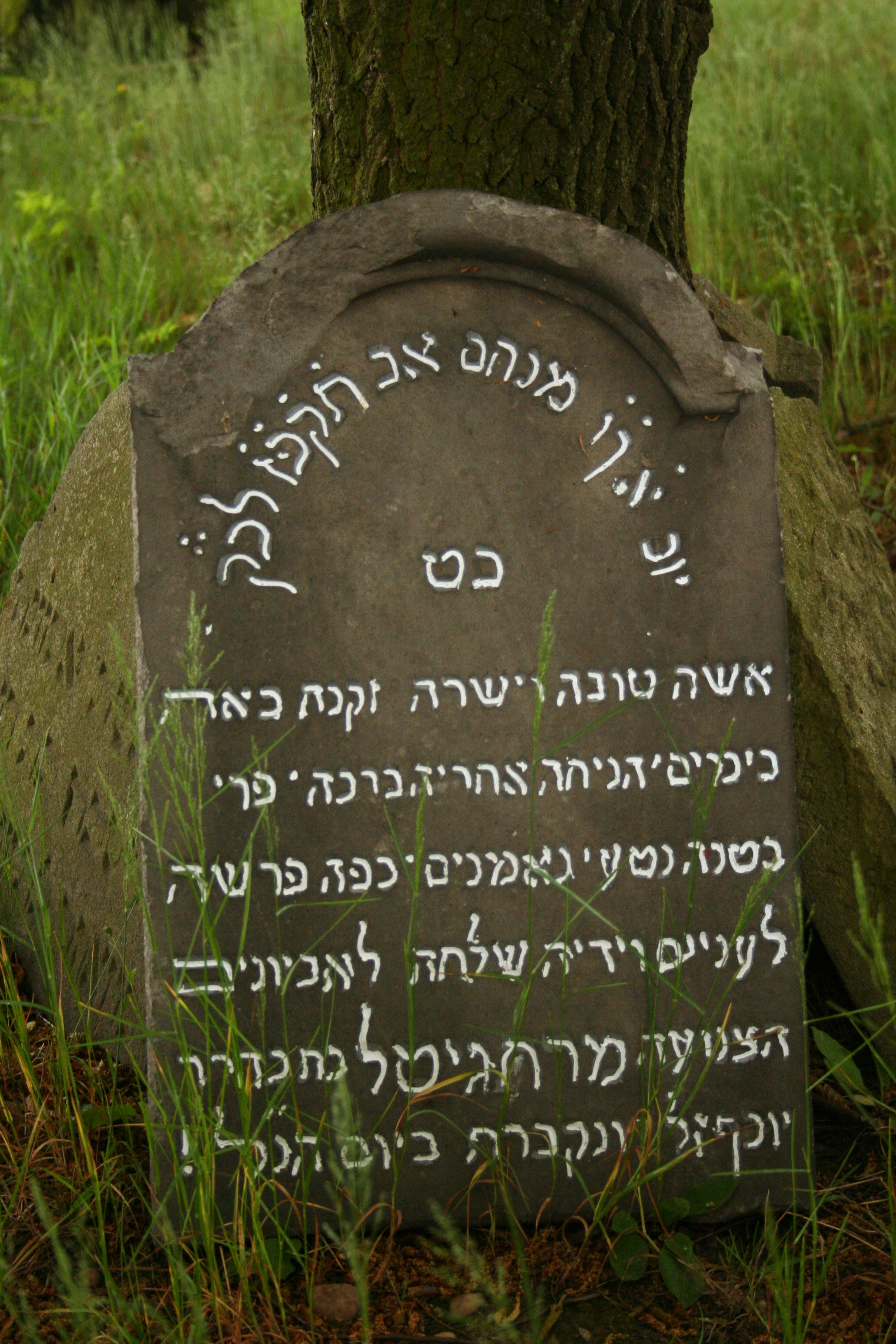 Jewish cemetery in Cieszowa. belongs to Gitel the daughter of the late Nadir Joseph. She [probably] died on July the 25th 1827